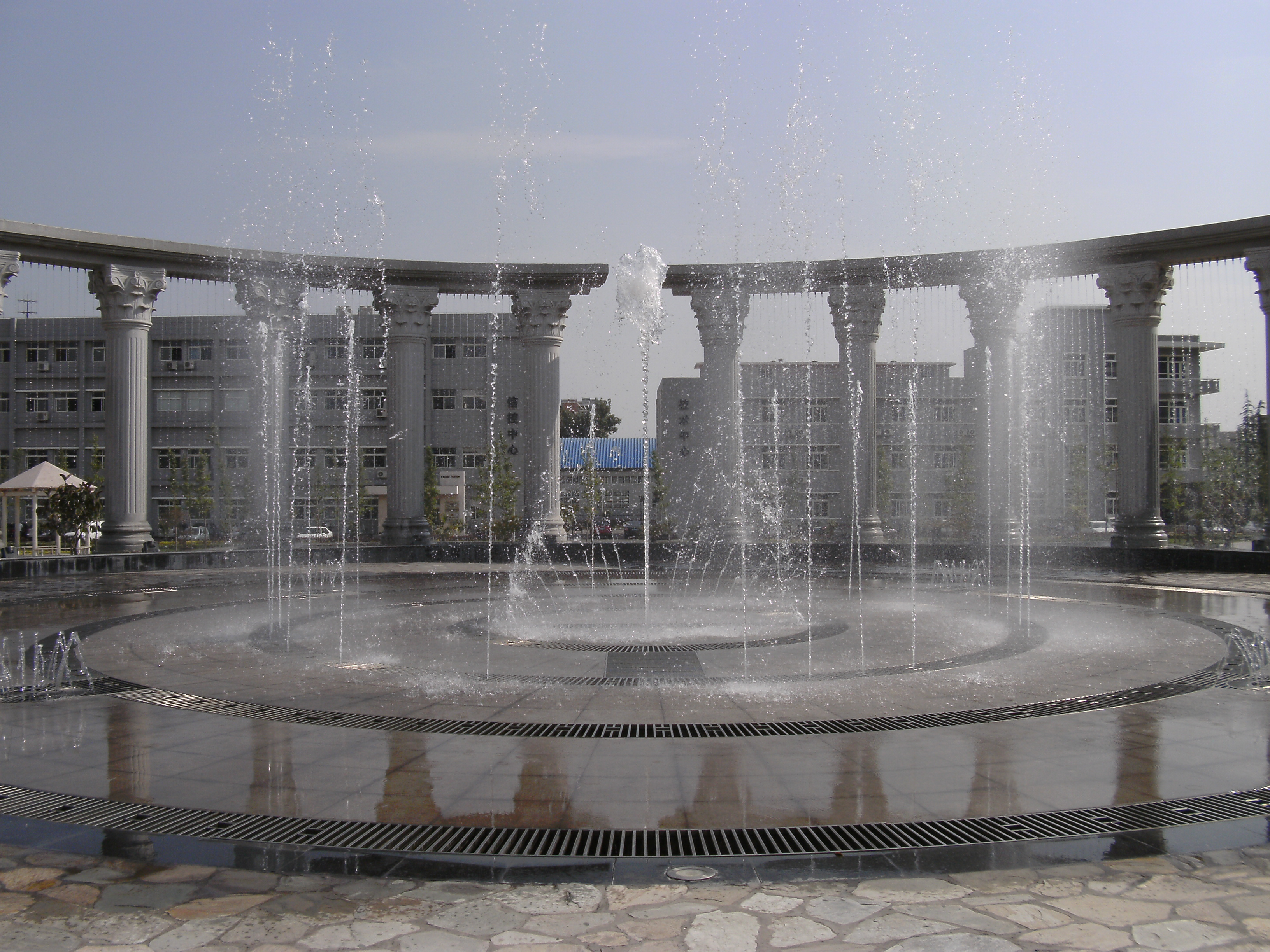 photo by Kent F. Kruhoeffer Here's a link to my online gallery